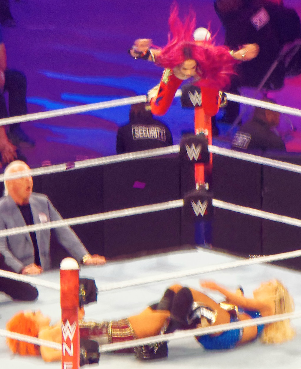 Sasha Banks performing the famous wrestling move "Frog splash" as a tribute for Eddie Guerrero during her wrestling match at WrestleMania 32 in April 3, 2016.